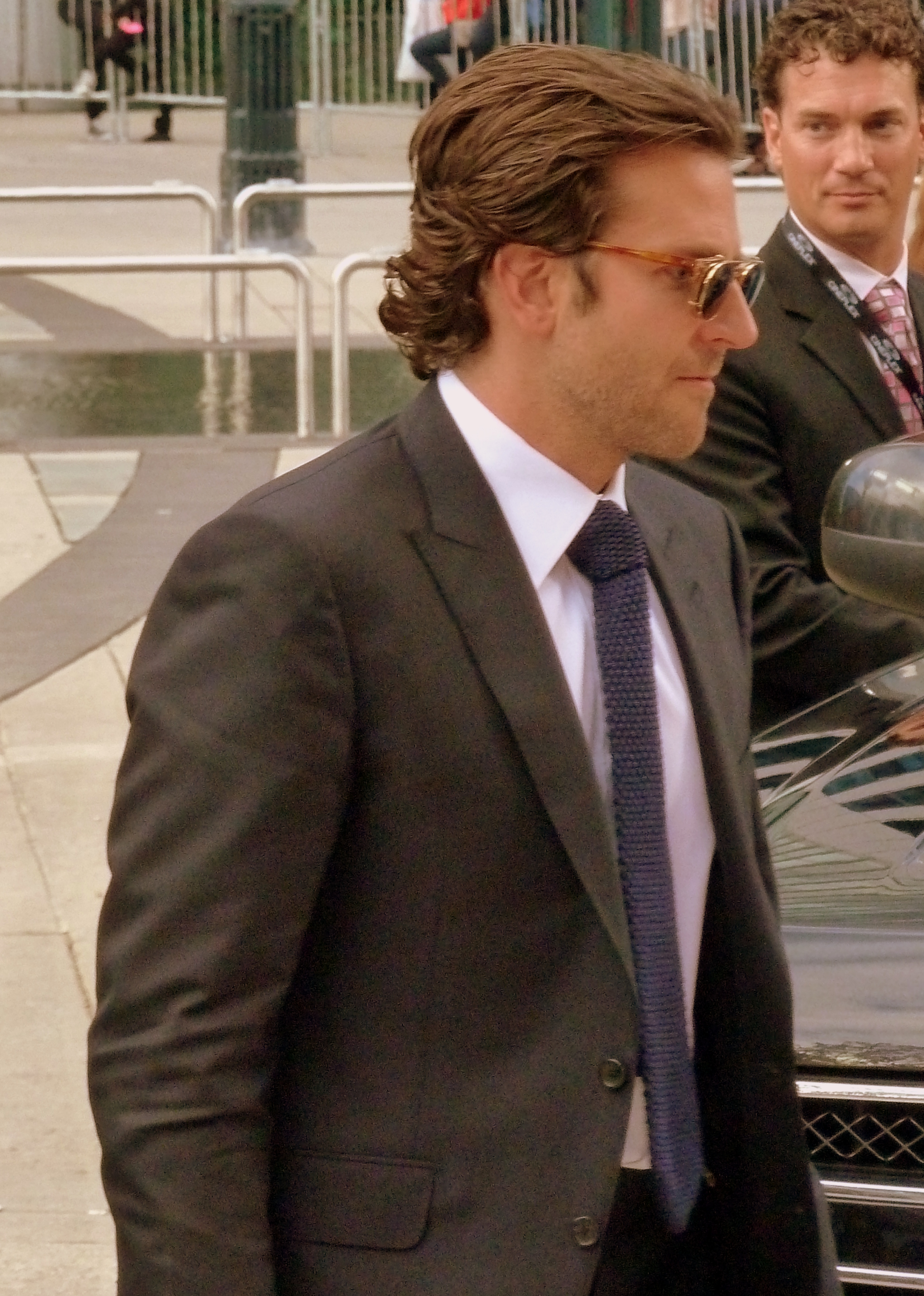 Bradley Cooper at the premiere of Silver Linings Playbook, Toronto Film Festival 2012